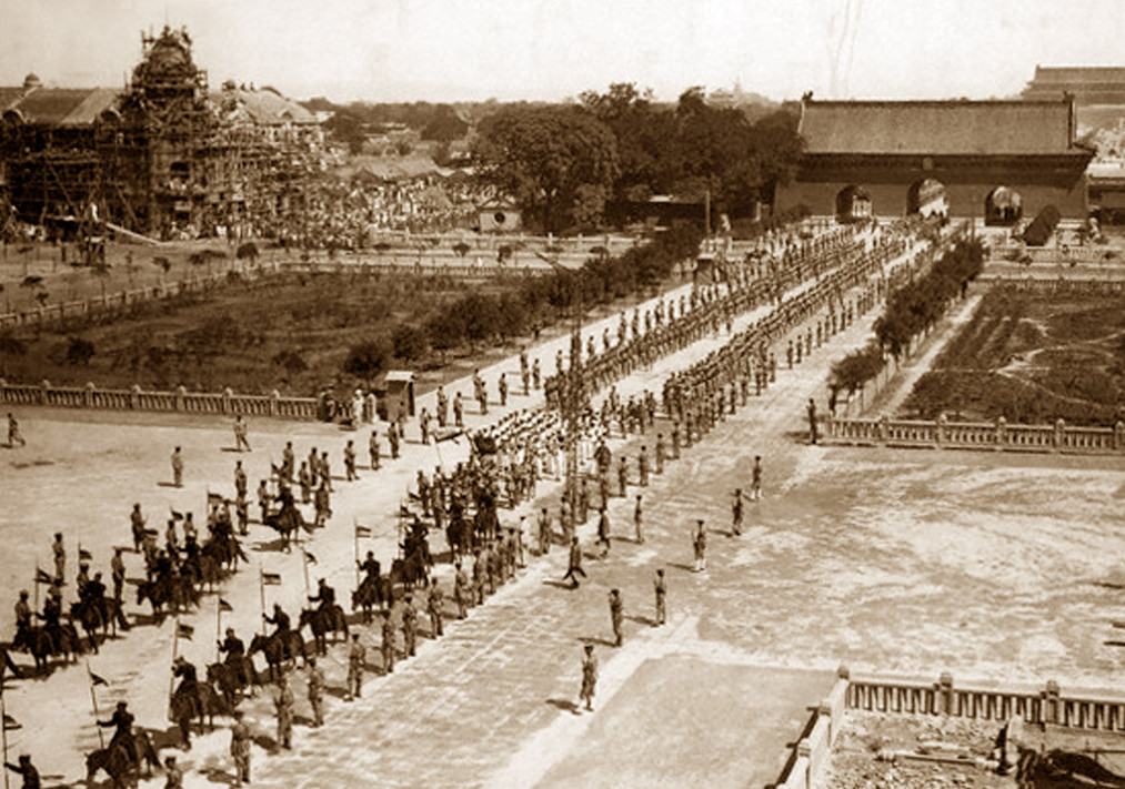 yan shikai funeral